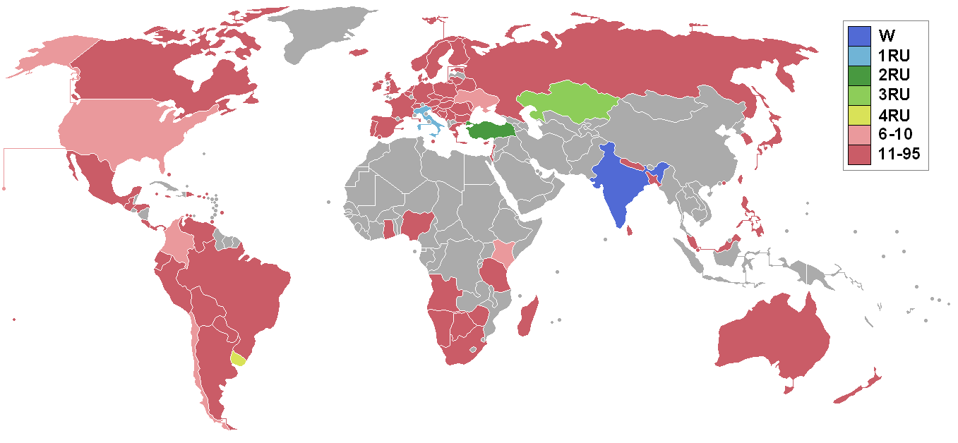 image created by Joey80